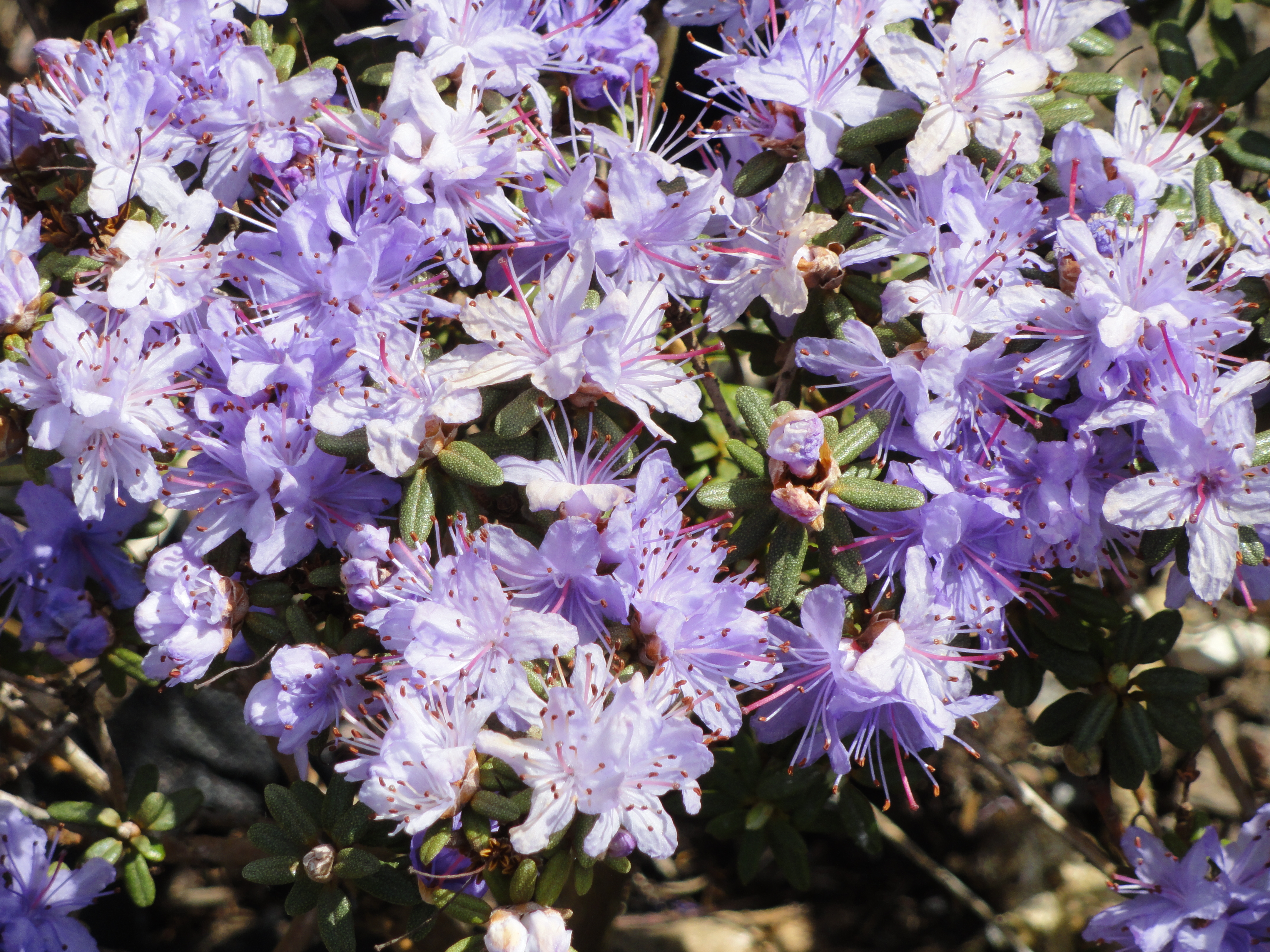 Rhododendron specimen in the University of Copenhagen Botanical Garden, Copenhagen, Denmark.